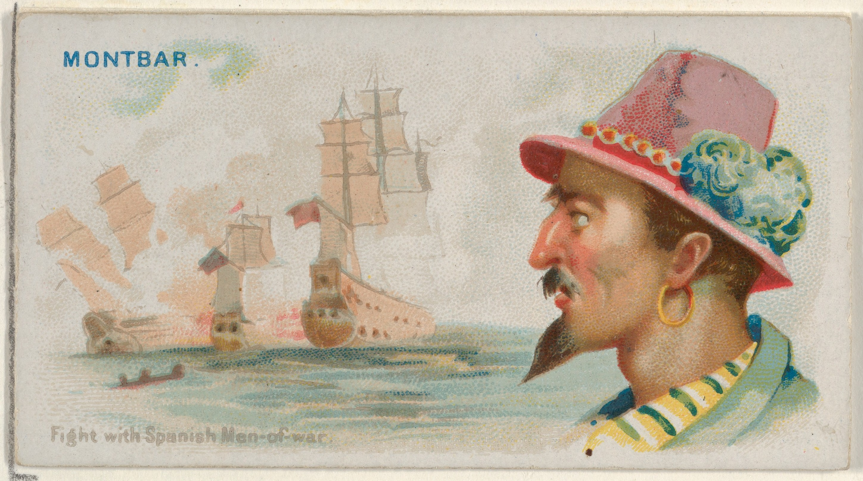 Print; Prints